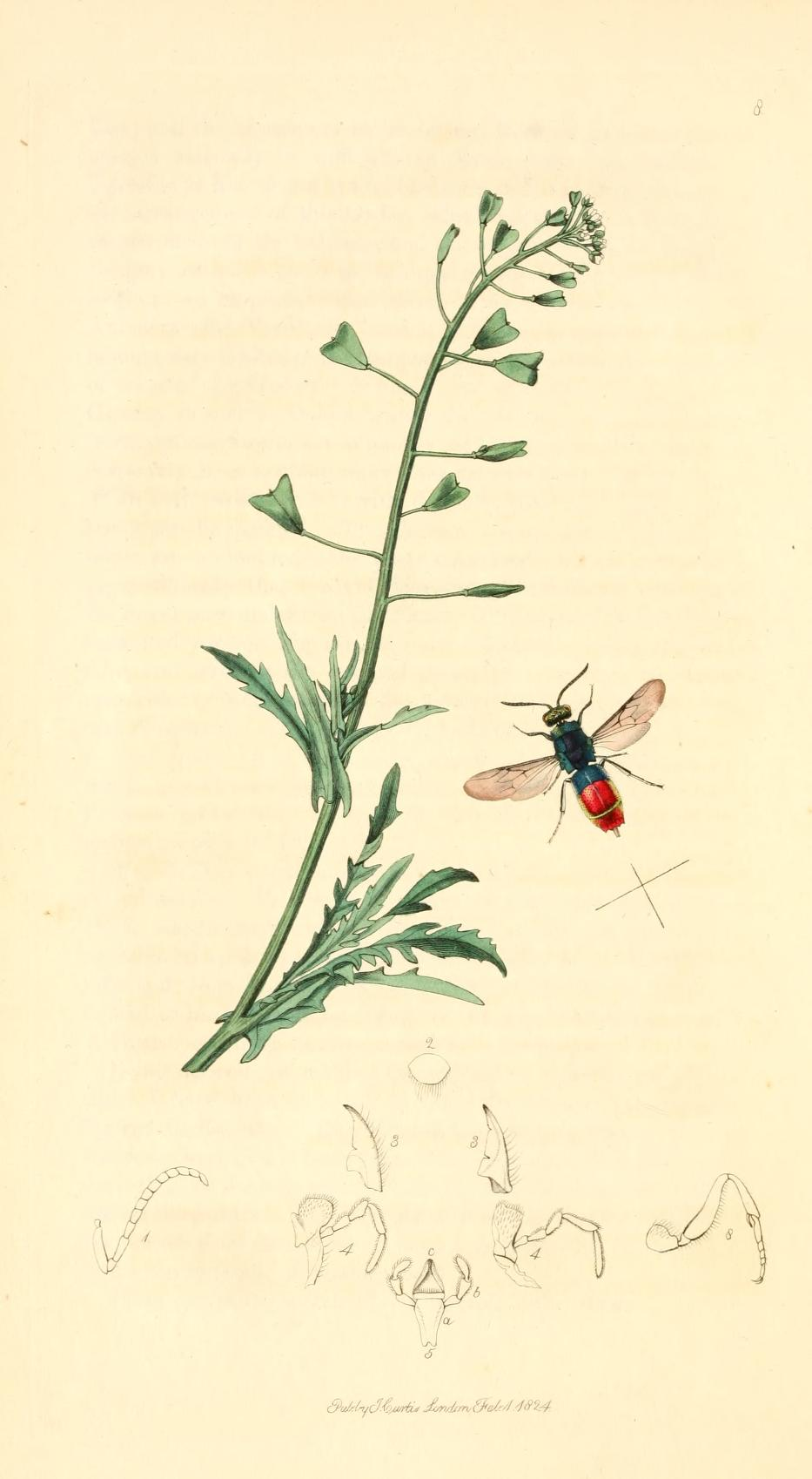 An illustration from British Entomology by John Curtis. Hymenoptera: Chrysis fulgida (Ruby-tailed Wasp).The plant is Capsella bursa-pastoris (Thlaspi bursa-pastoris, Shepherd’s Purse)